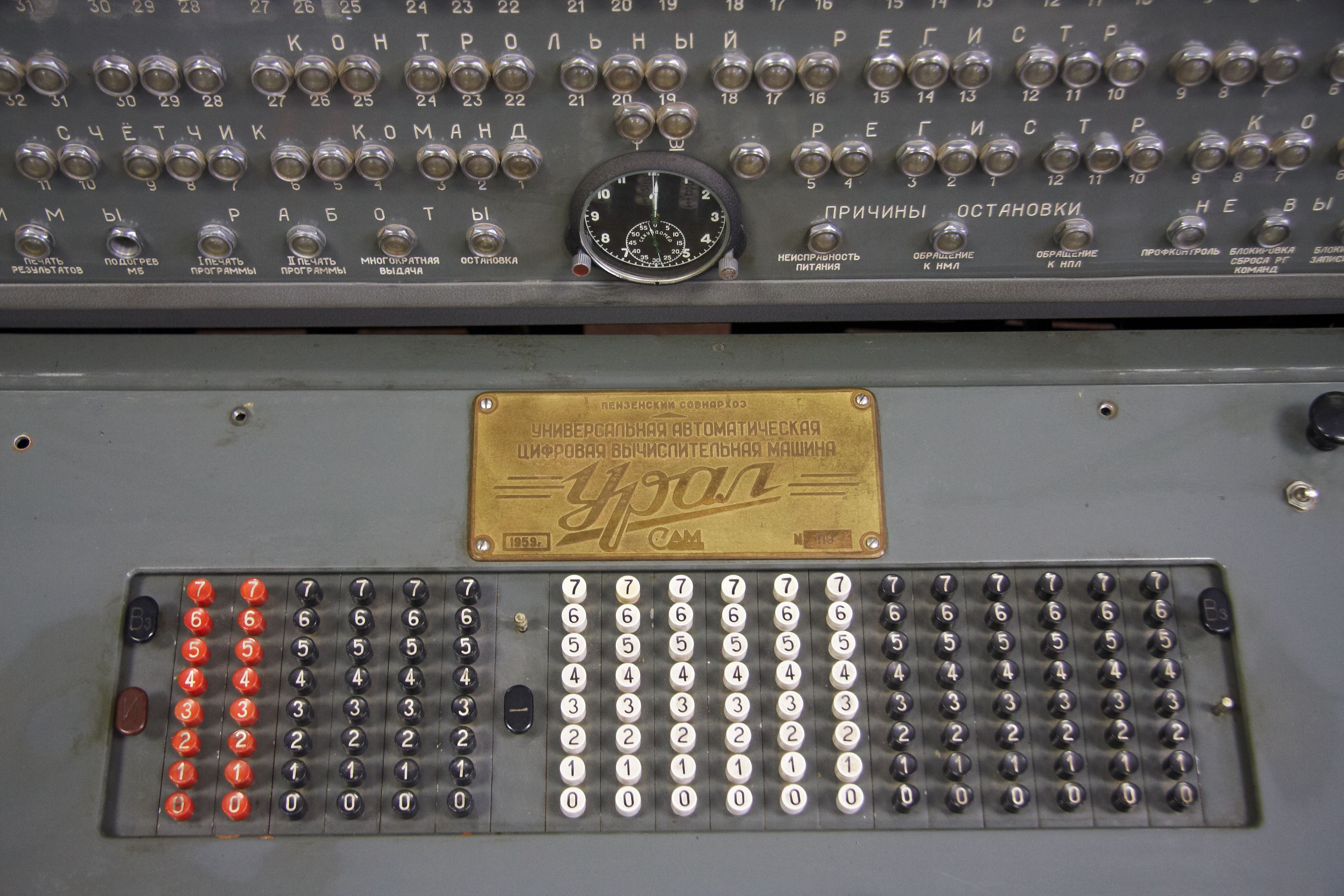 Ural-1 Control Unit close view